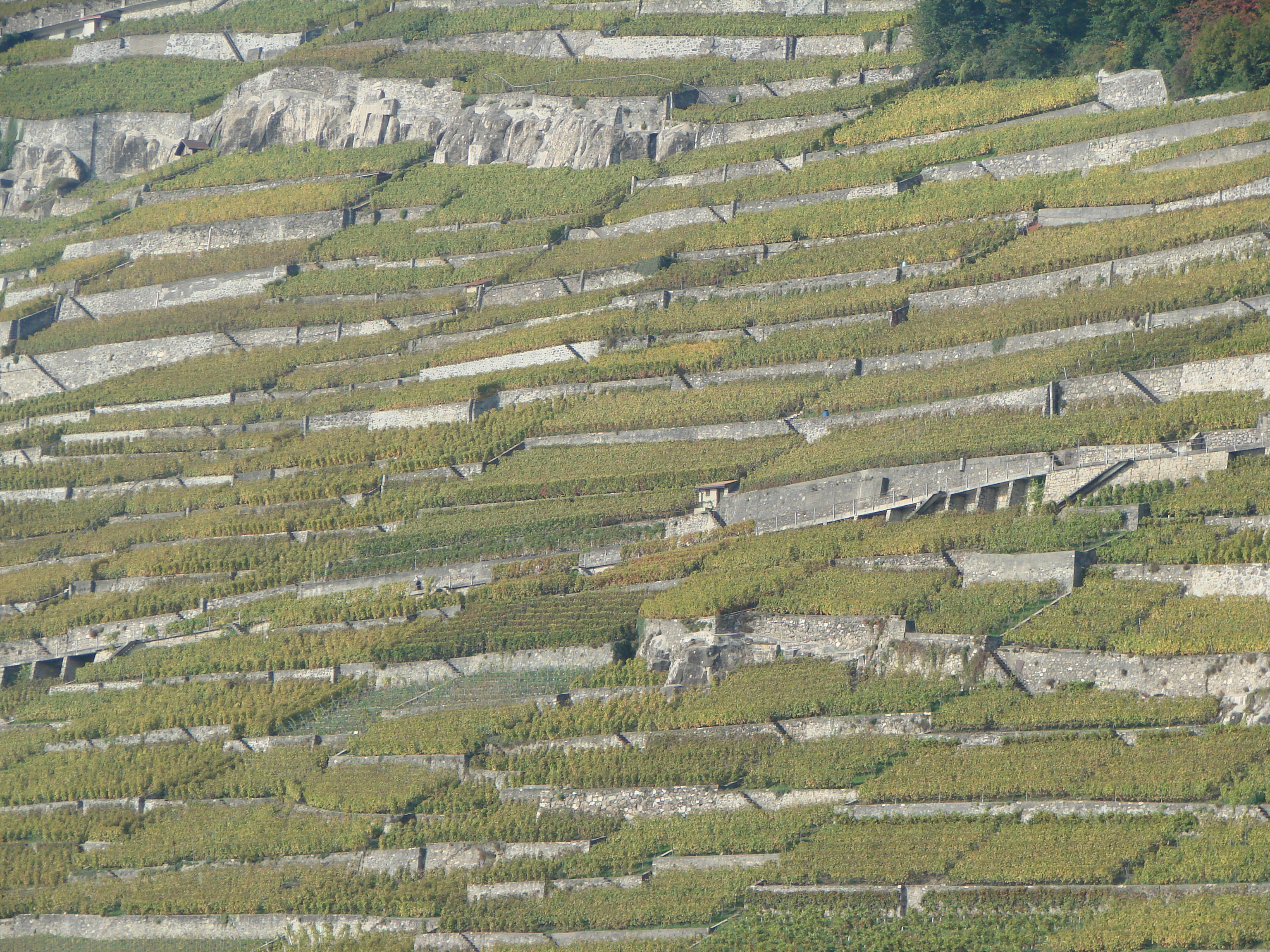 Lavaux Vineyard Terraces (Switzerland), World Heritage (UNESCO).